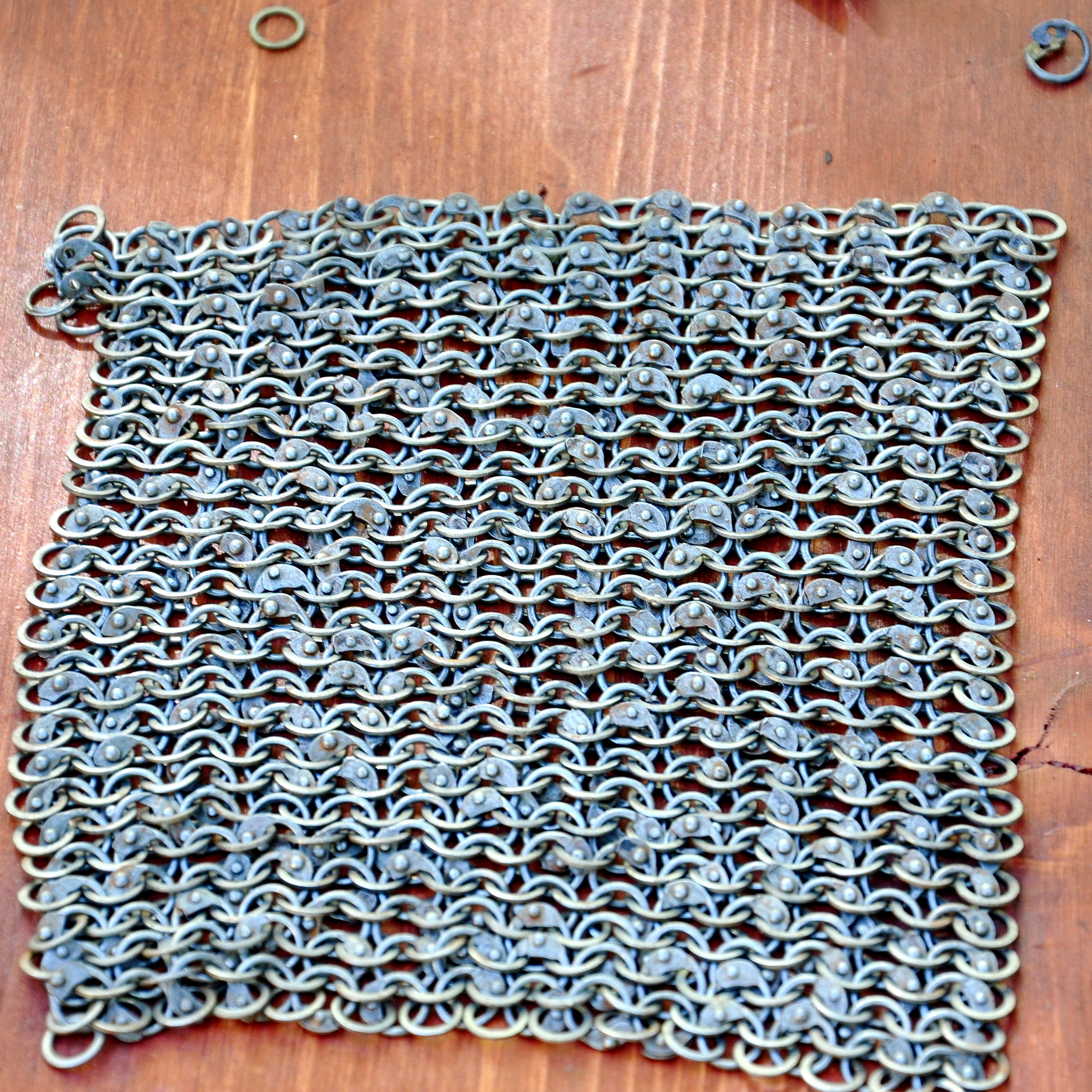 Legio XXI Rapax, 'guests' on Lindenhof plaza respectively Pfalzgasse in Zürich (Switzerland) on Friday-Monday before Sechseläuten in April 2011